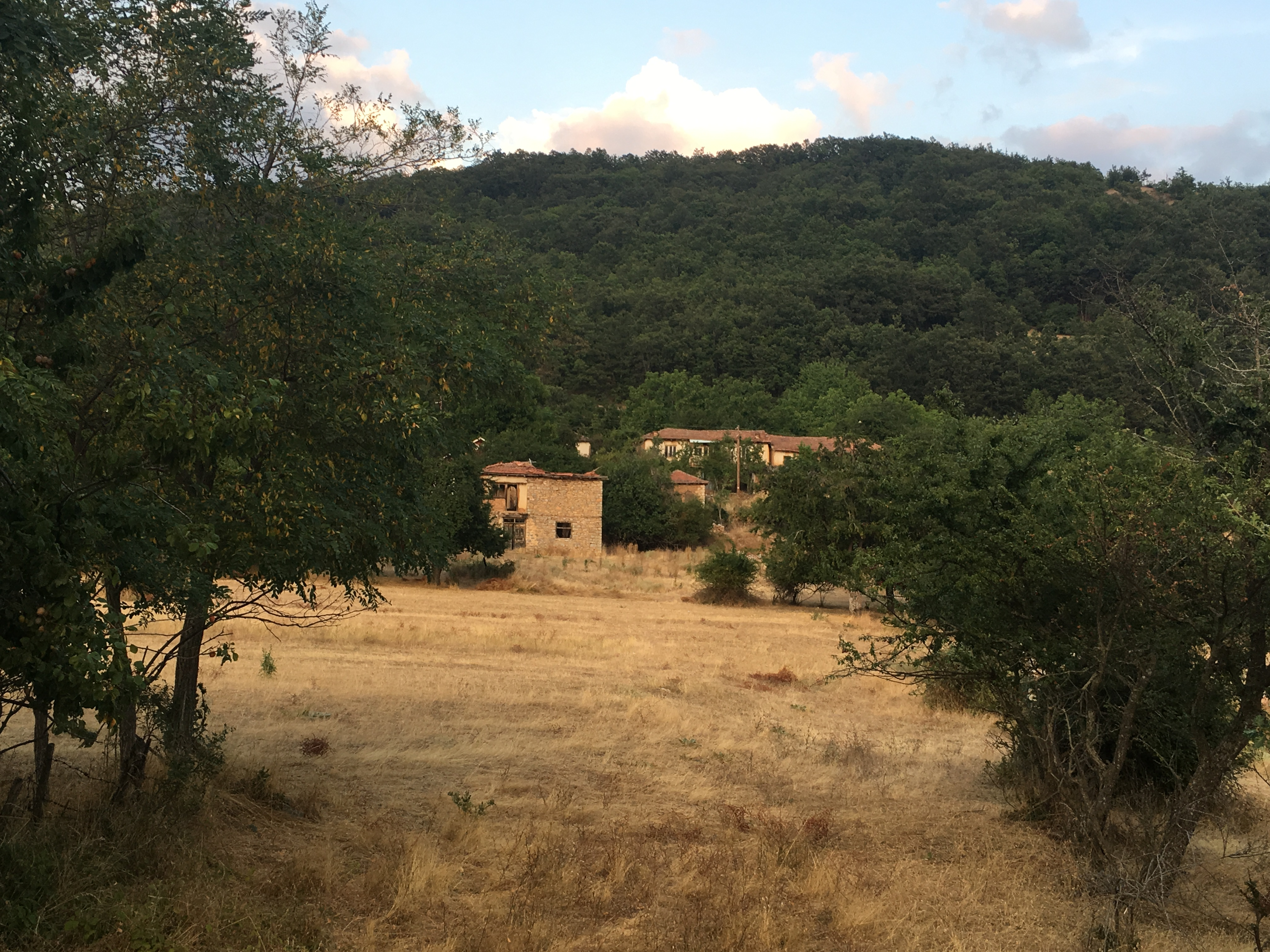 A view of the village of Gorno Konjsko